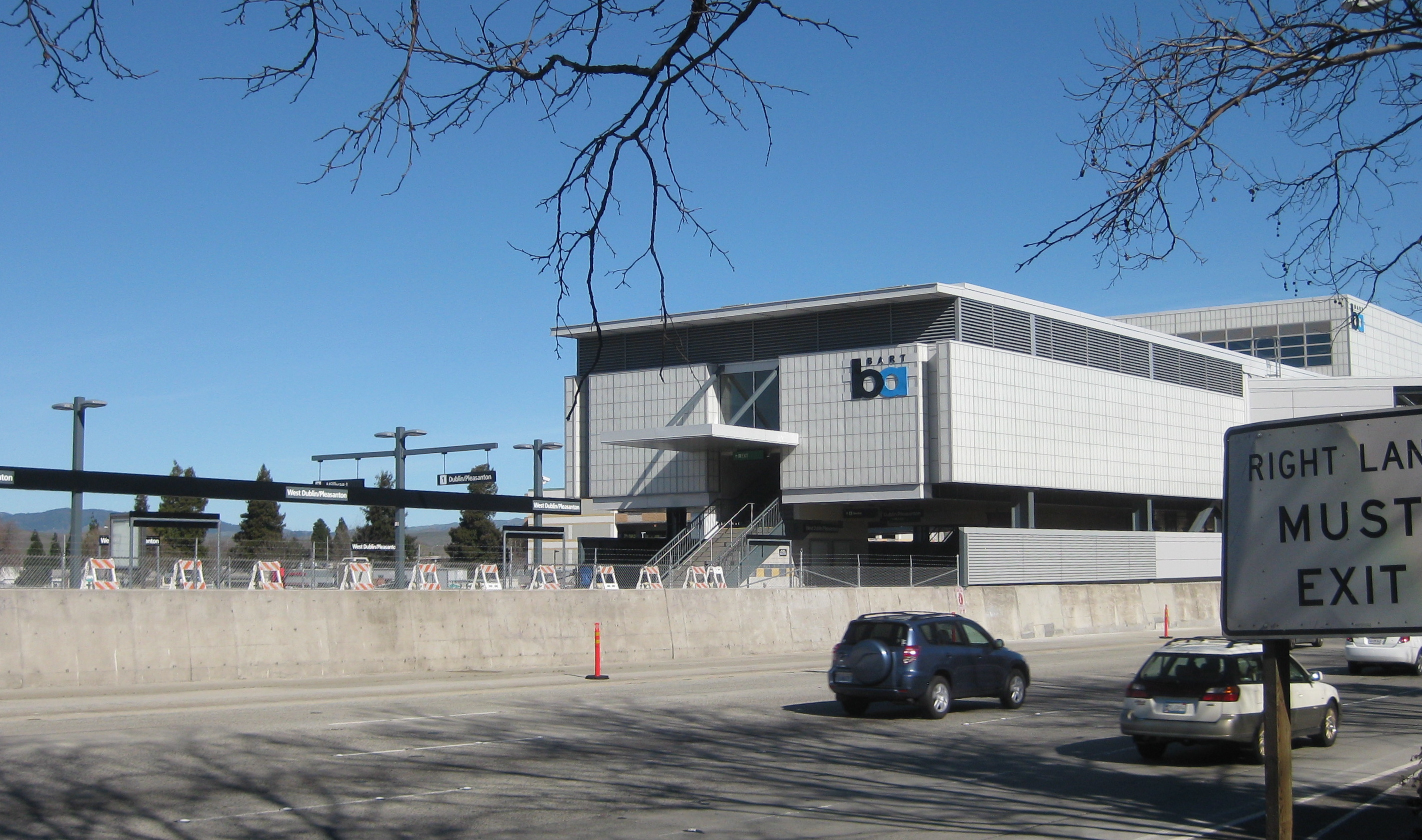 West Dublin/Pleasanton BART station about two weeks prior to its opening, photographed from south side of I-580.